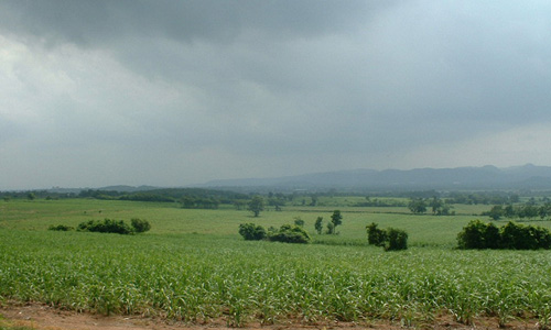 Plantation Valley in Amphoe Chai Badan, Lopburi Province.